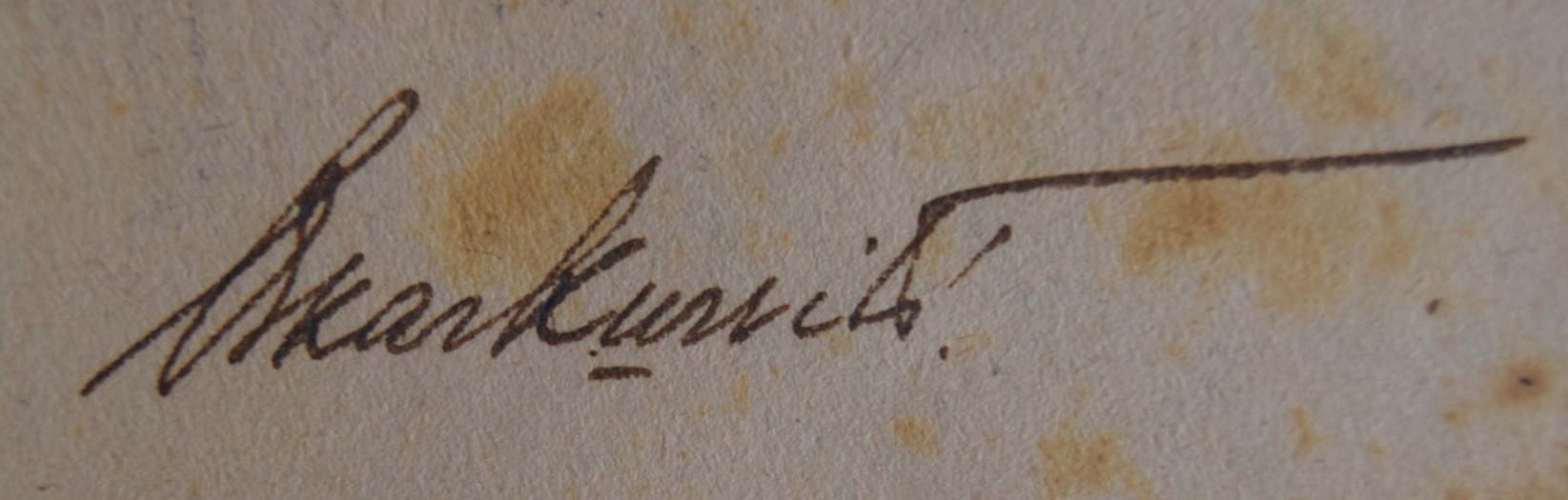 Signature of Oskar Kurvits (1888-1940)